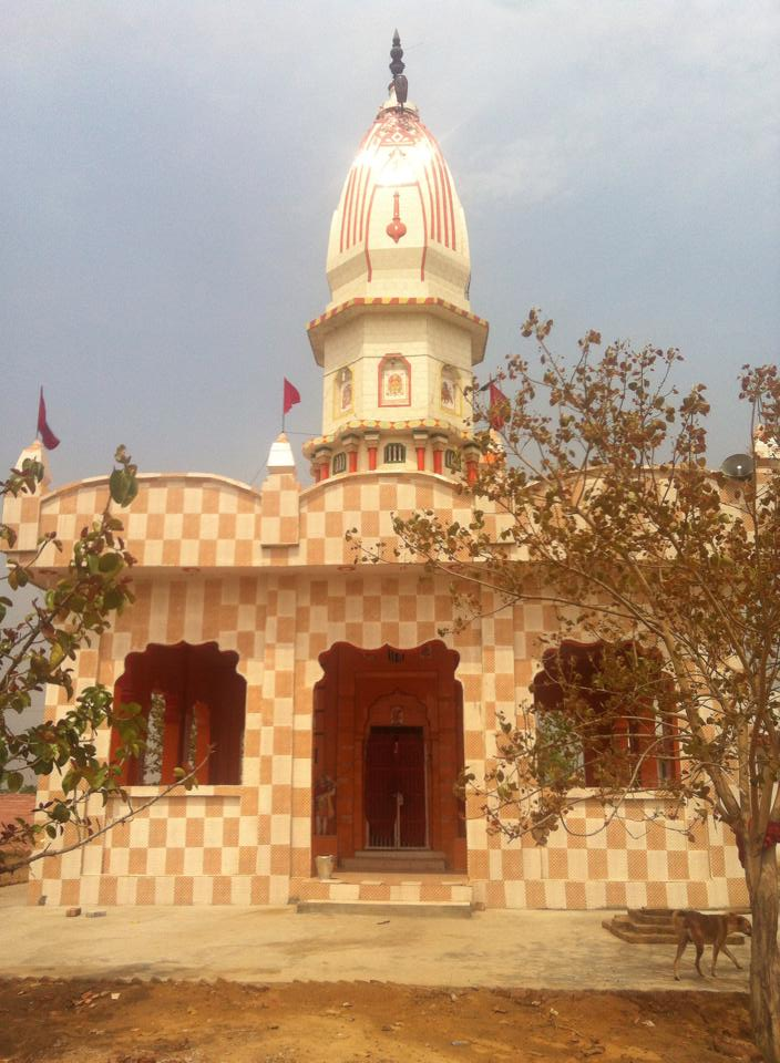 Front view of Lord Hanuman Temple